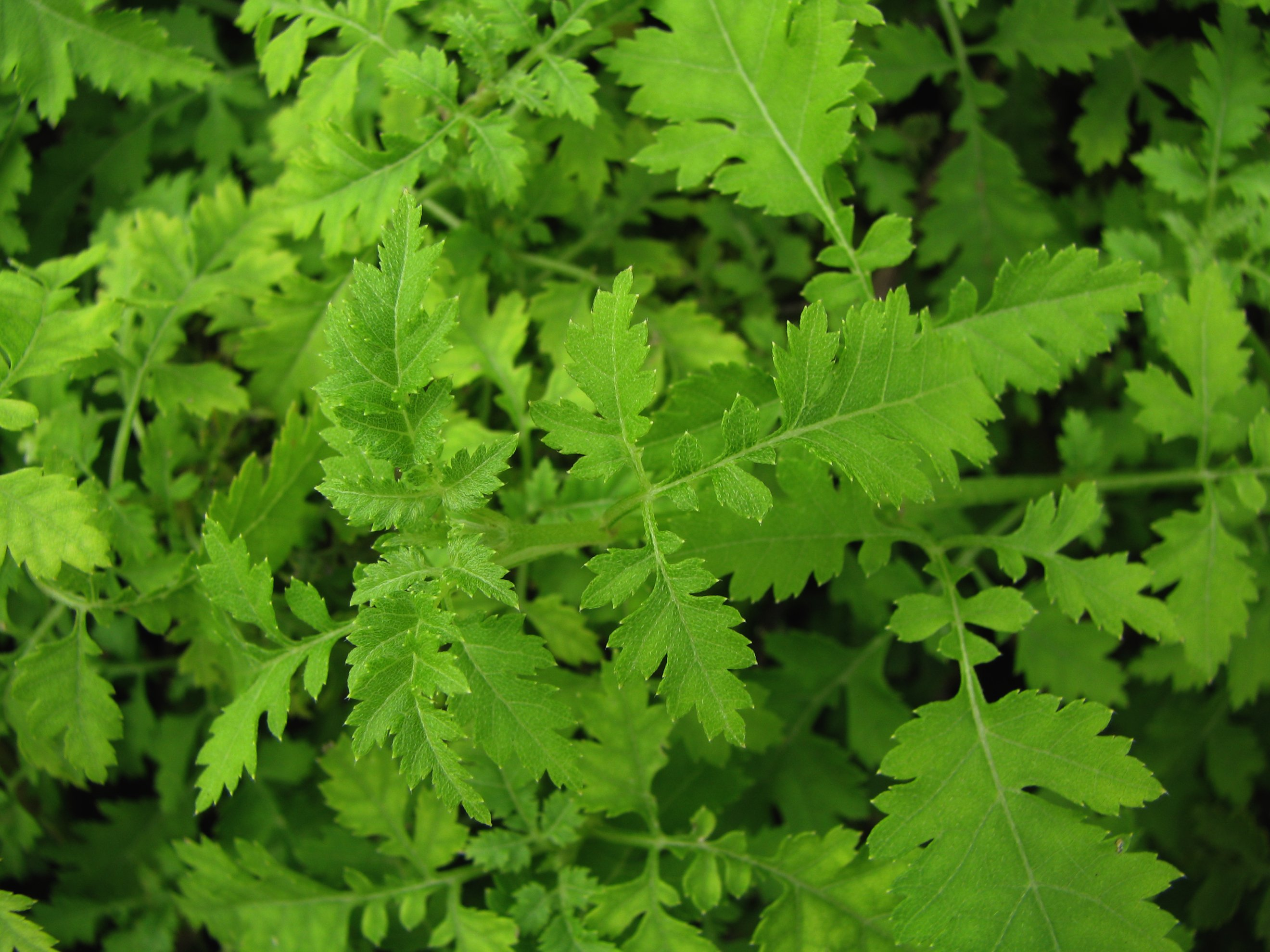 Nehe Asteraceae Endemic to the Hawaiian Islands (Kauaʻi only) Endangered Oʻahu (Cultivated)